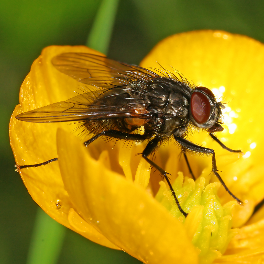 Description: Thricops semicinereus on Ranunculus acris.